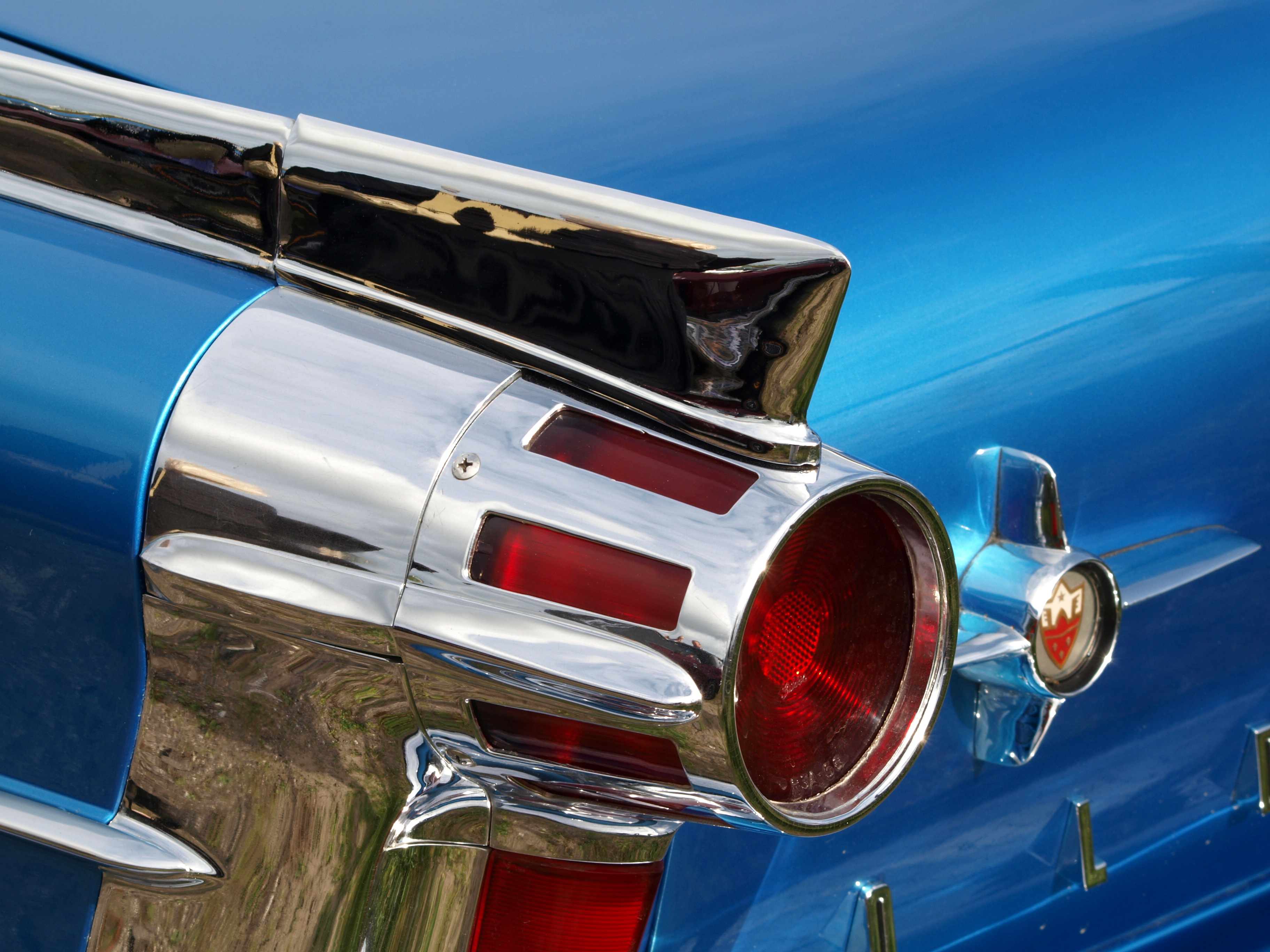 Taillight of a 1958 Oldsmobile Dynamic 88 sedan at the Nationaal Oldtimer Festival, Zandvoort 2011.